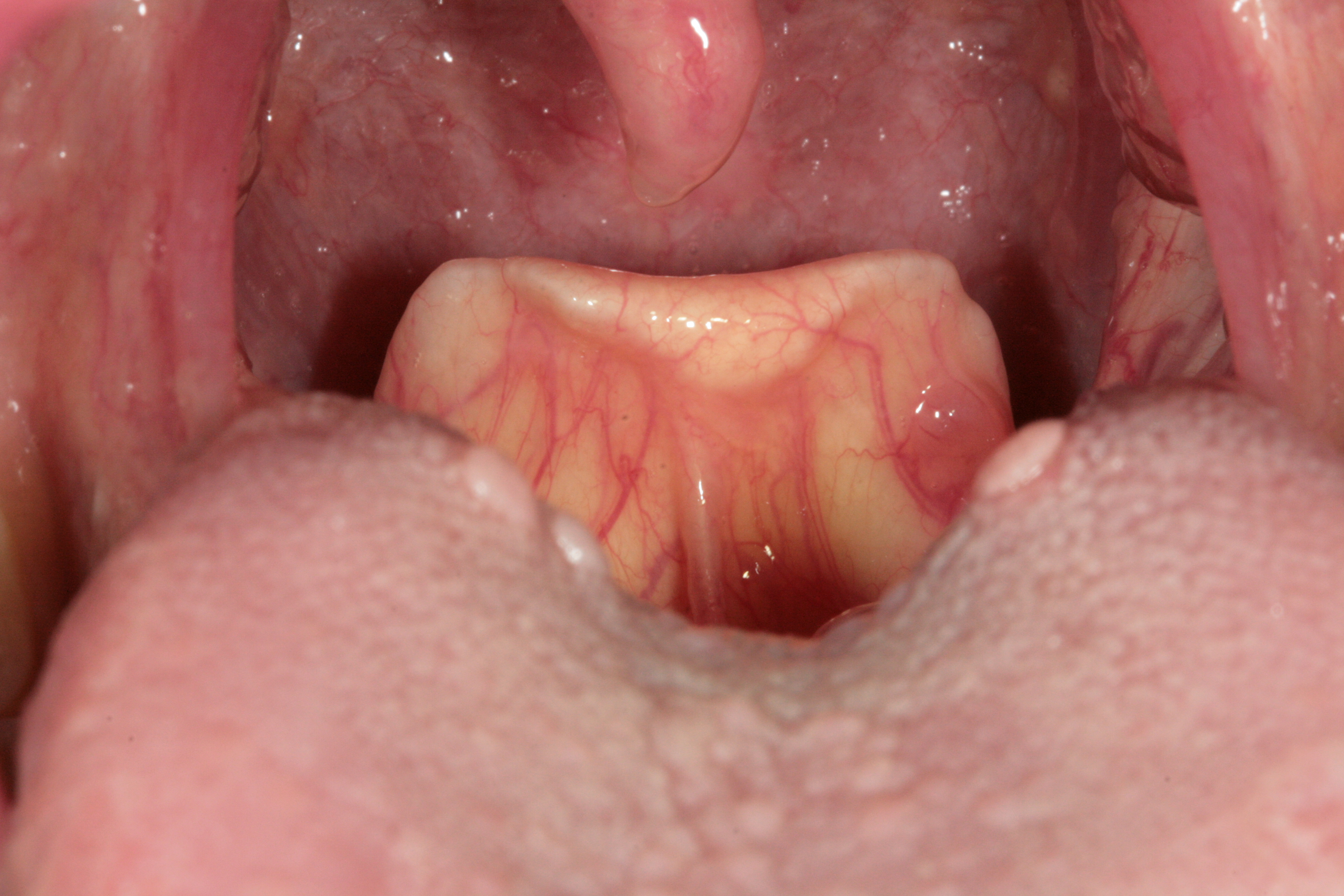 High rising epiglottis is a normal anatomical variation, visible during an oral examination which does not cause any serious problem apart a mild sensation of a foreign body in the throat. .It is seen more often in children than adults and does not need any medical or surgical intervention. Mvskoke: Υψηλή επιγλωττίδα είναι μια φυσιολογική ανατομική παραλλαγή, ορατή κατά την εξέταση του στόματος. Είναι συχνότερη στα παιδιά και δεν προκαλεί κανένα πρόβλημα παρά μόνο μια μικρή αίσθηση ξένου σώματος στο λαιμό που δεν χρειάζεται όμως καμία φαρμακευτική η χειρουργική αντιμετώπιση.